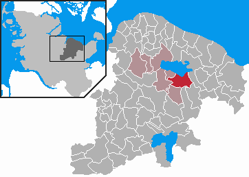 This map shows the area of the Gemeinde (municipality) Lammershagen in the Kreis (district) Plön, Schleswig-Holstein, Germany.